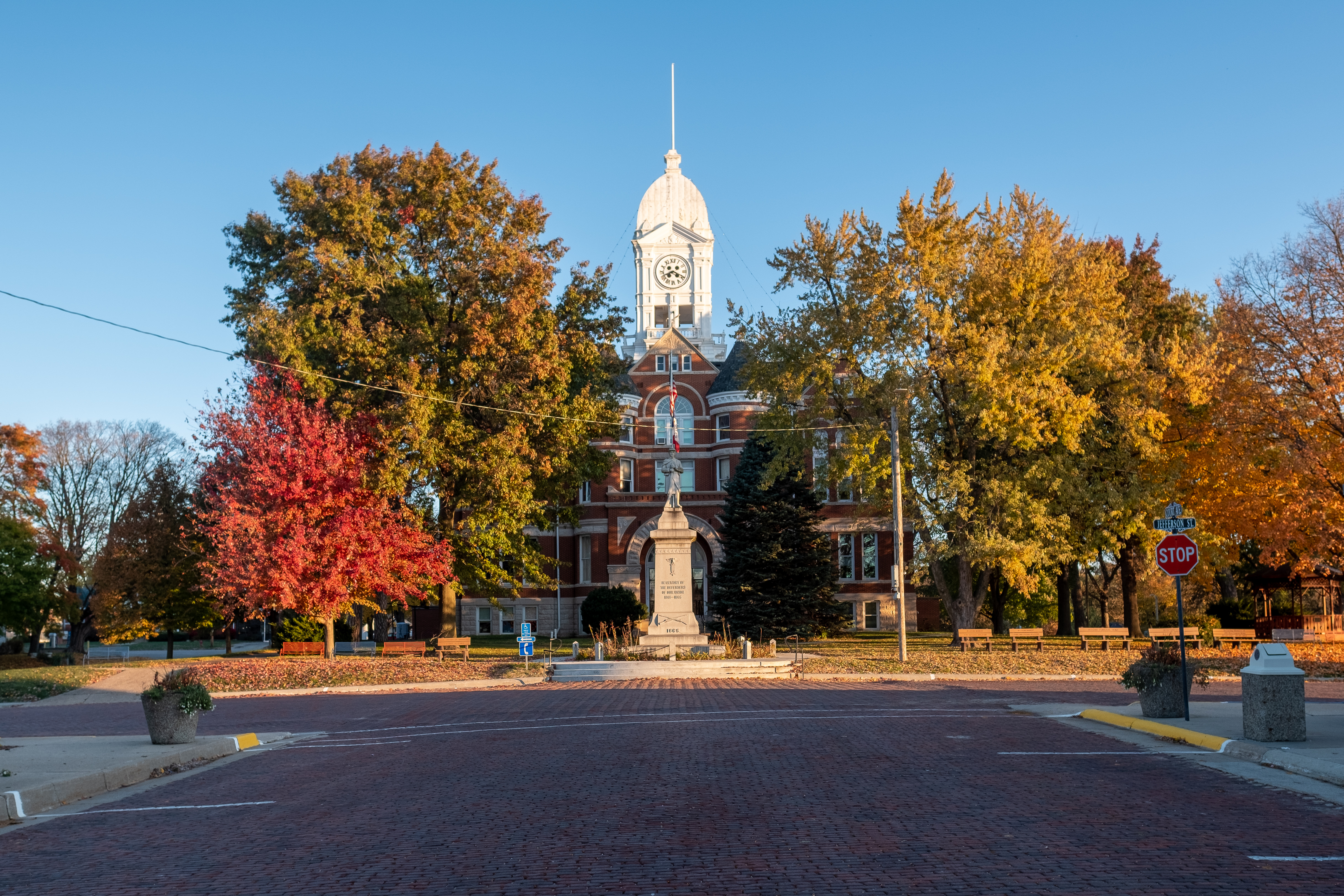 Taylor County Courthouse viewed from the south.